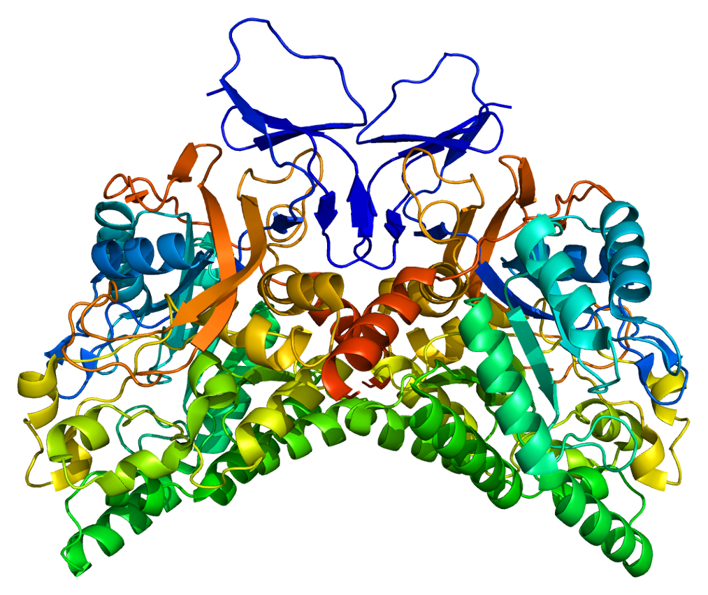 Structure of the CRMP1 protein. Based on PyMOL rendering of PDB 1kcx.